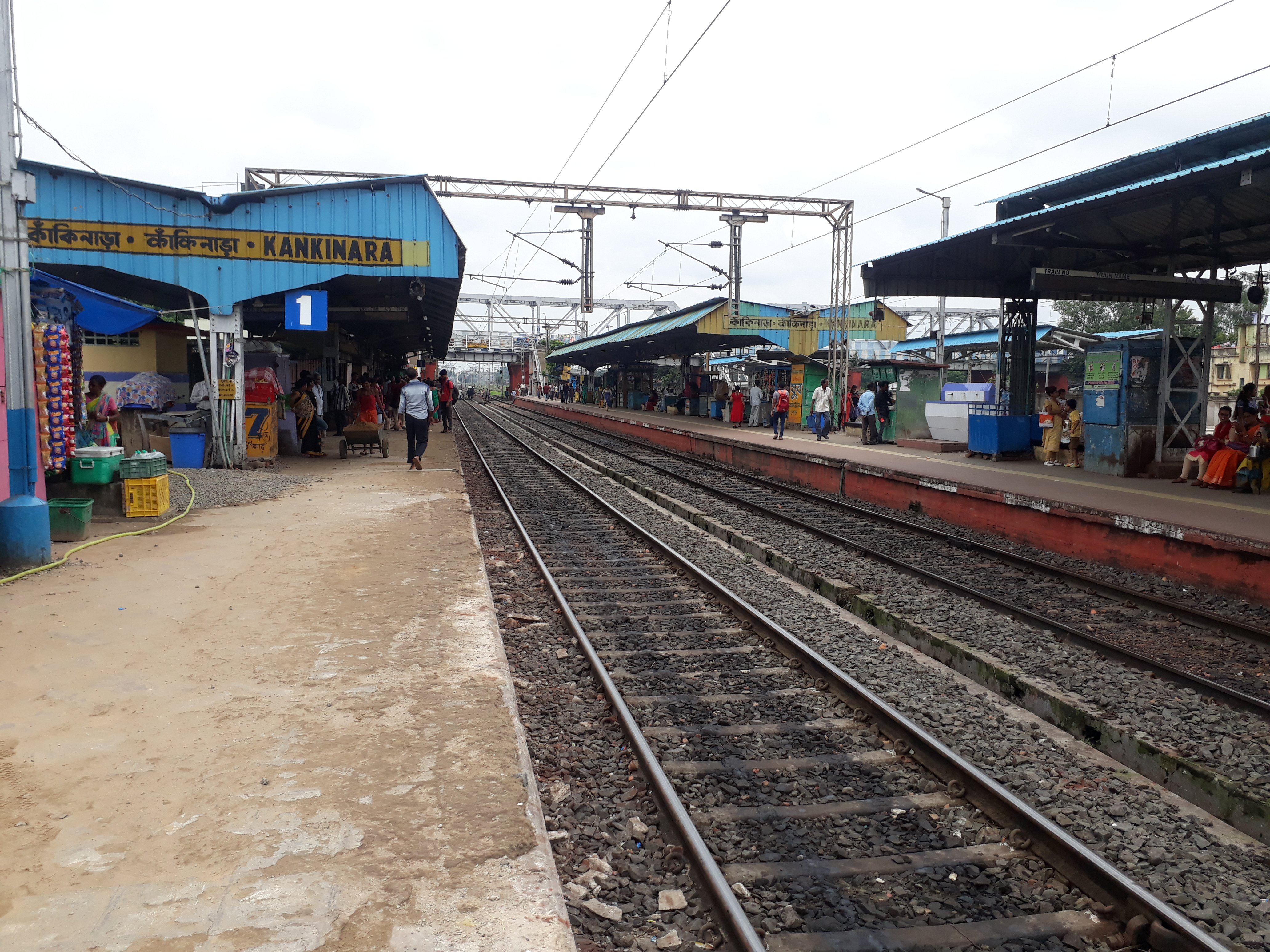 Kankinara railway station in Sealdah to Ranaghat main line, North 24 Parganas, West Bengal